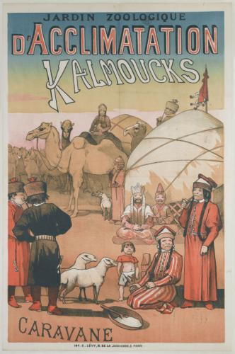 The file represents the Turkic people called Kalmuks being portrayed in a Ethnological Exposition.